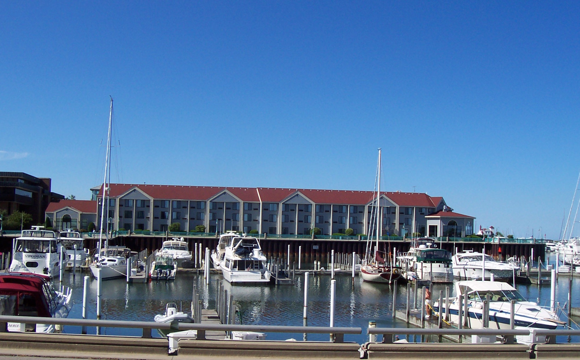 Harbour and Radisson Hotel Harbourwalk, Racine WI (2007)